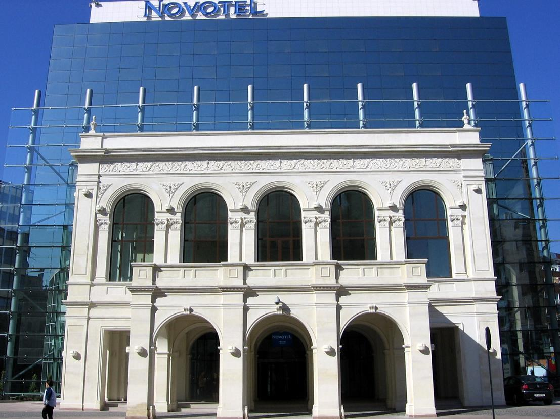 an example of facadism in the center of Bucharest